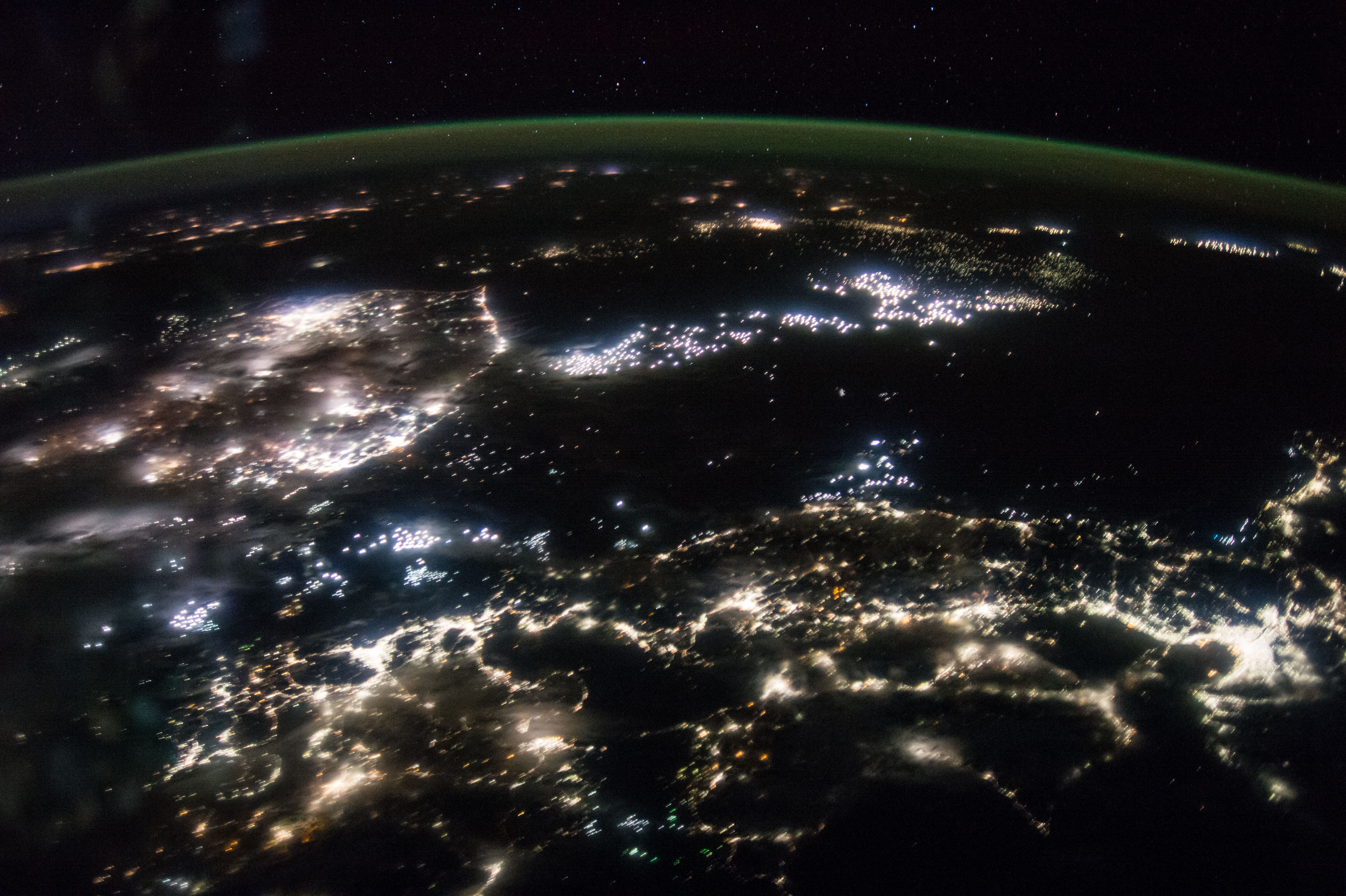 Night view of the Earth from the International Space Station by the crew of Expedition 49. The land mass northwest is South Korea and south of Korea is Japan. The small dotted lights east of South Korea and north of Japan are fishing boats in the Sea of Japan.